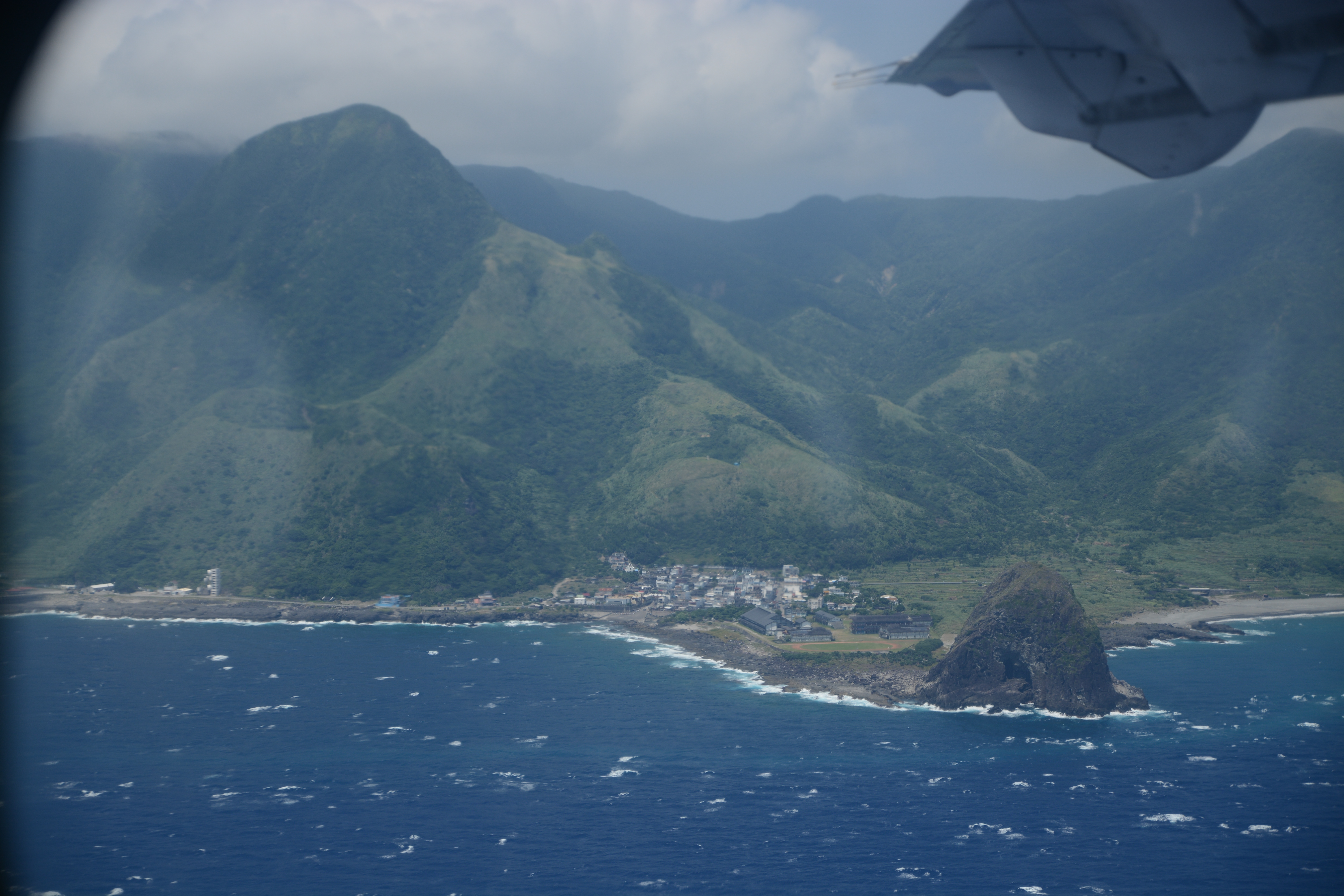 Aerial view from airplane window overlooking the tribe village of Yayo and the school building of the Lanyu Senior High School. Mantou Rock can be seen on the right. 中文（台灣）: 從飛機的窗口俯瞰椰油部落與蘭嶼高中的校舍。在右邊可見到饅頭岩。